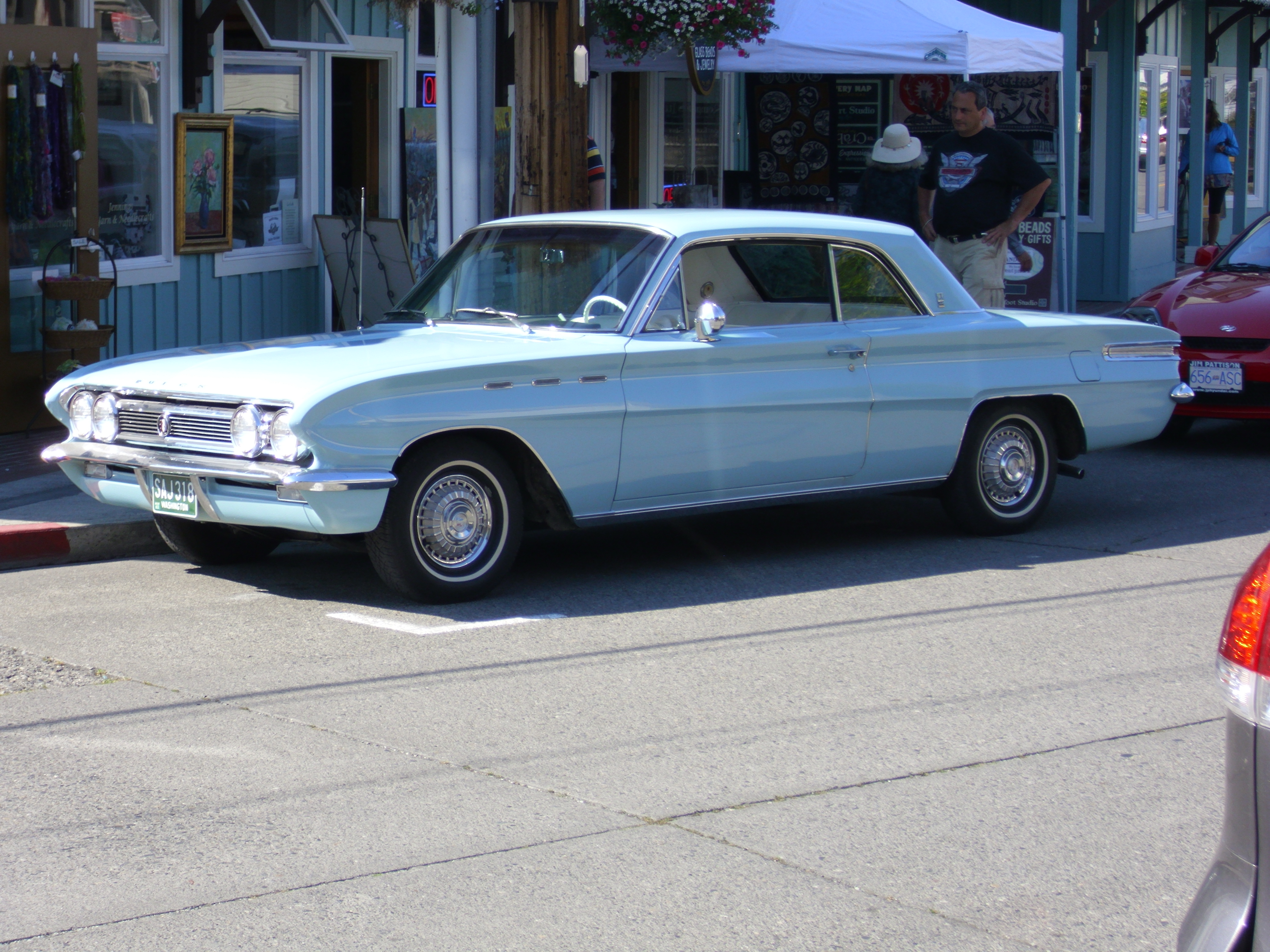 I saw this driving down the street and my camera was in my pocket. I figured they would park somewhere close, and when I got two blocks down, there it was.